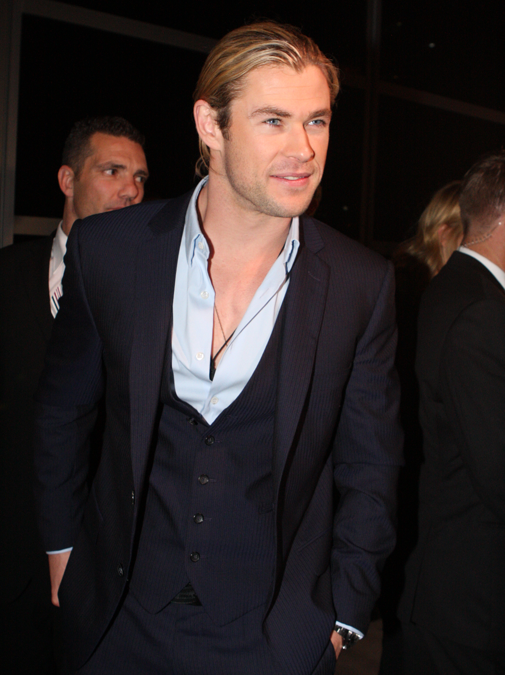 Chris Hemsworth at the Snow White and the Huntsman movie premiere - Bondi Junction, Sydney Australia 2012.